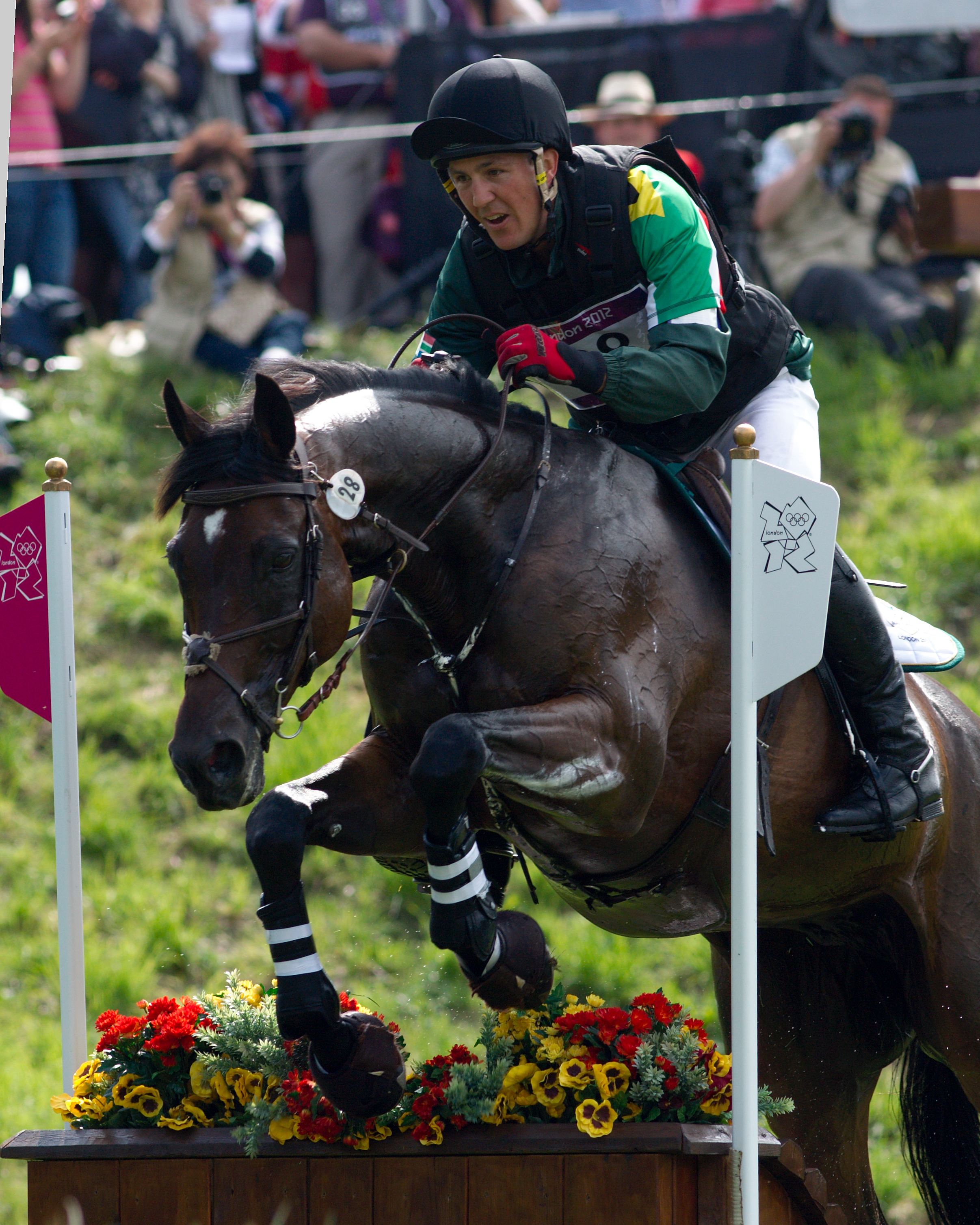 Alexander Peternell and Asih, competing for RSA, at fence 20, during the cross-country phase of the Eventing during the 2012 Olympic Games in Greenwich Park, London.